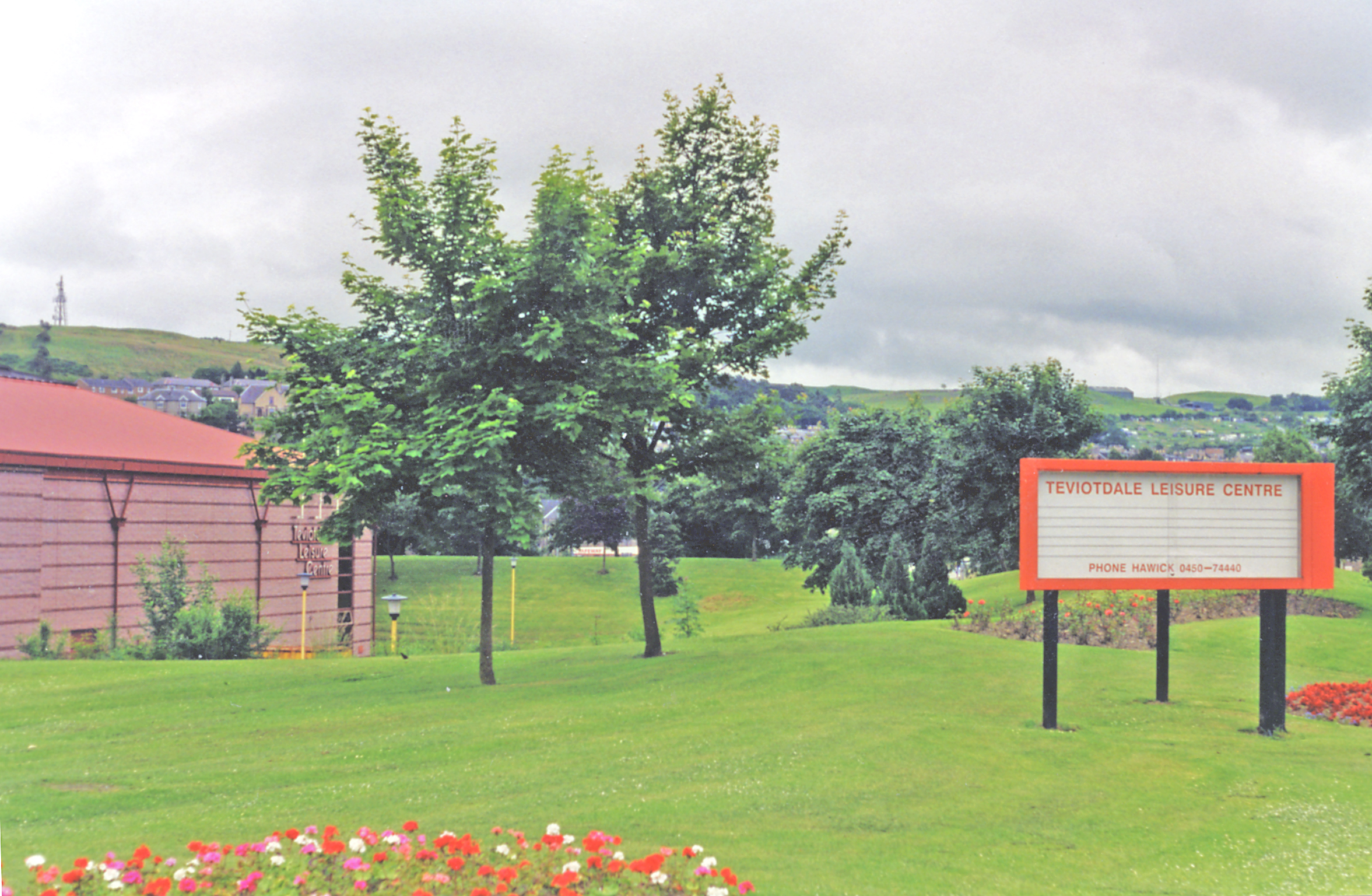 Site of Hawick station, now Teviot Leisure Centre, 1998. View SW, towards Carlisle: ex-NBR Edinburgh - Hawick - Carlisle main line (Waverley Route), closed 6/1/69 (passengers), 28/4/69 (goods)